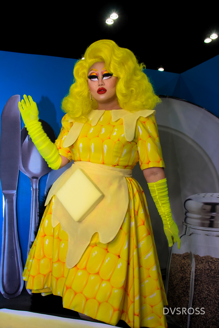 Kim Chi at RuPaul's DragCon LA 2018